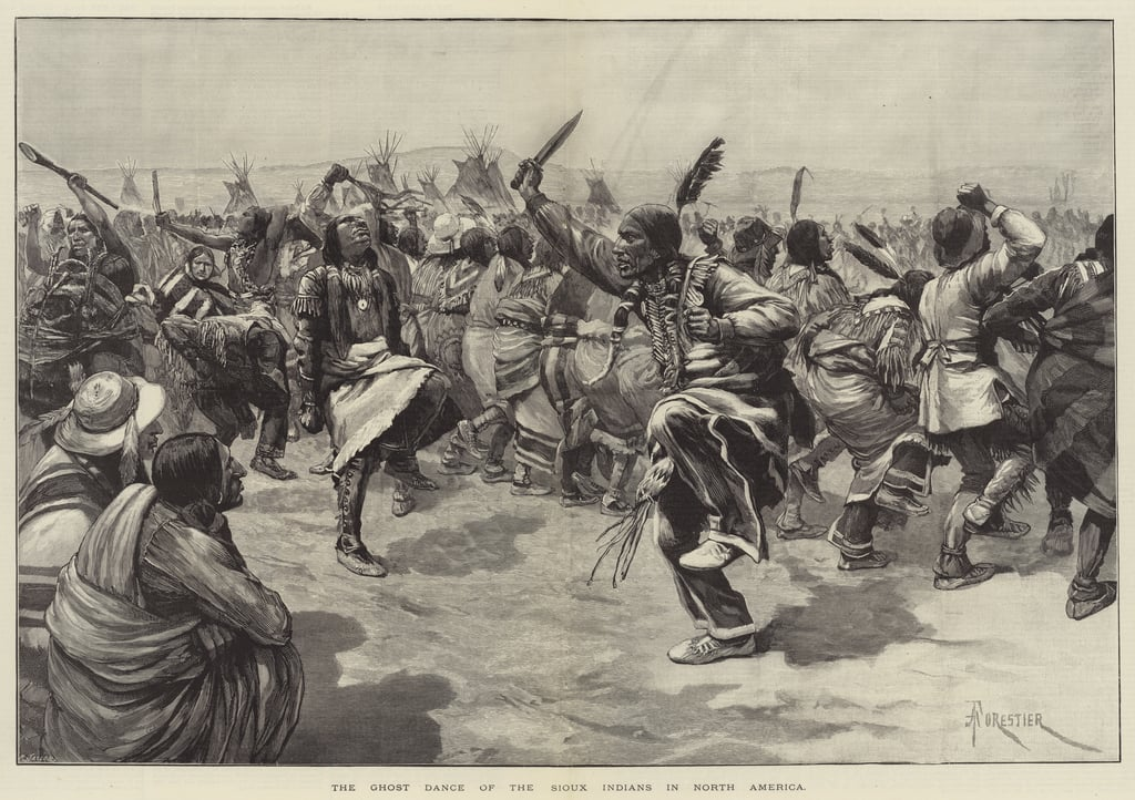 Sioux Ghost Dance Blurry my soul at Wounded knee